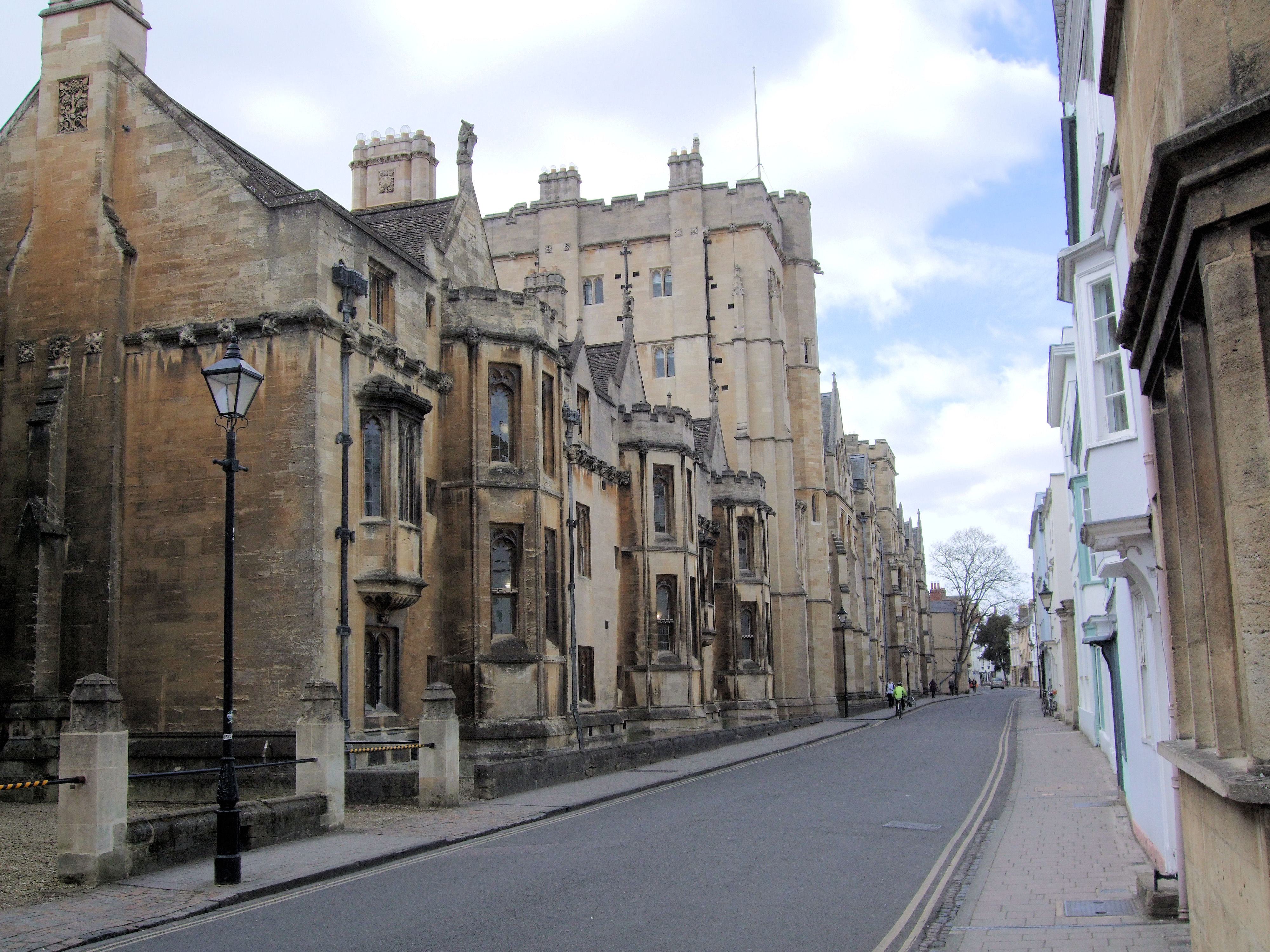 New College, Oxford Description from original image page at Flickr: "New College is one of the constituent colleges of the University of Oxford in the United Kingdom. Its official name, College of St Mary, is the same as that of the older Oriel College; hence, it has been referred to as the "New College of St Mary", and is now almost always called "New College". One of the most famous and academically successful of the Oxford colleges, it stands along Holywell Street and New College Lane (known for Oxford's Bridge of Sighs), next to All Souls College, The Queen's College and St Edmund Hall."